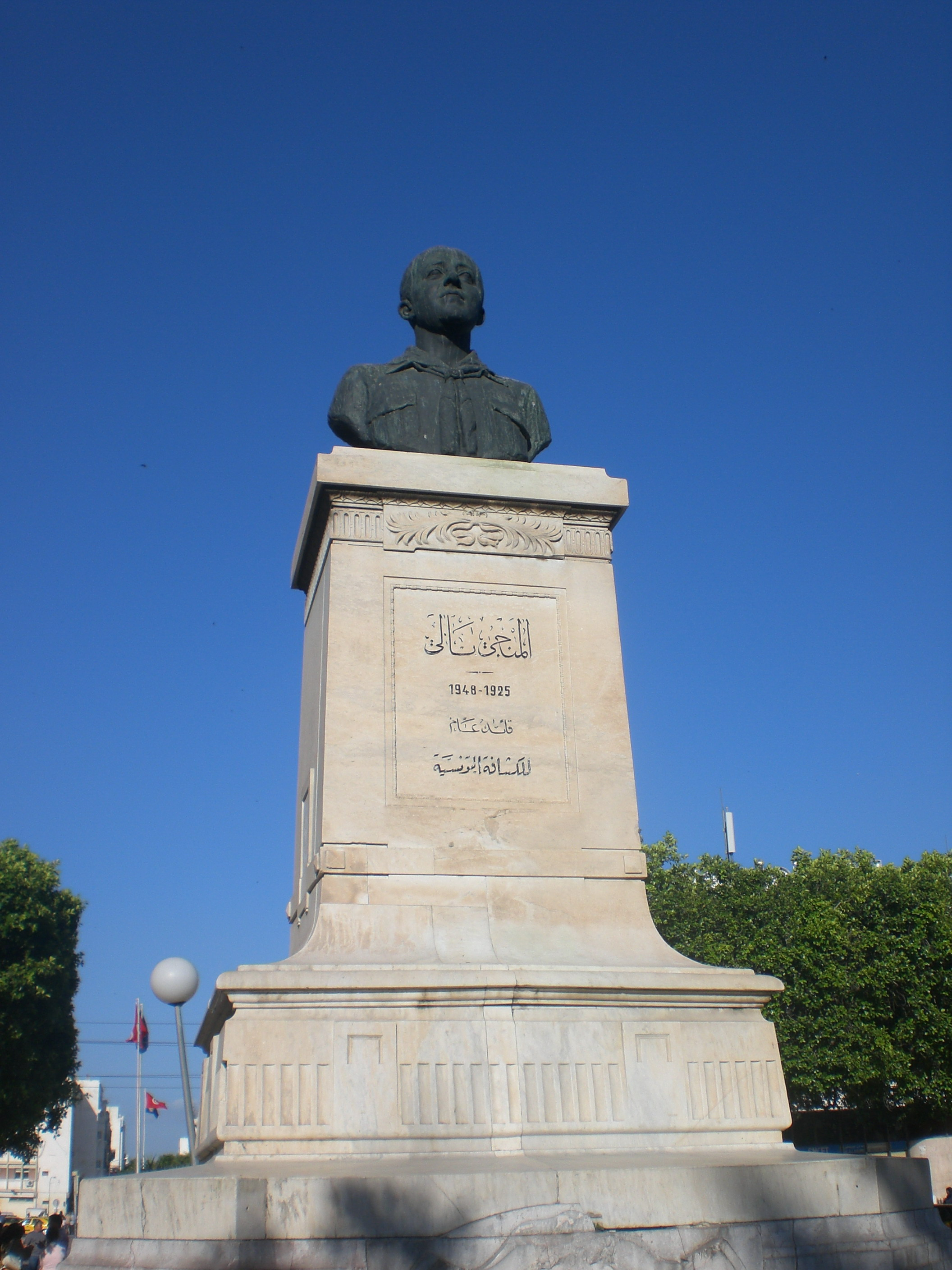 Monji Bali Statue in Tunis